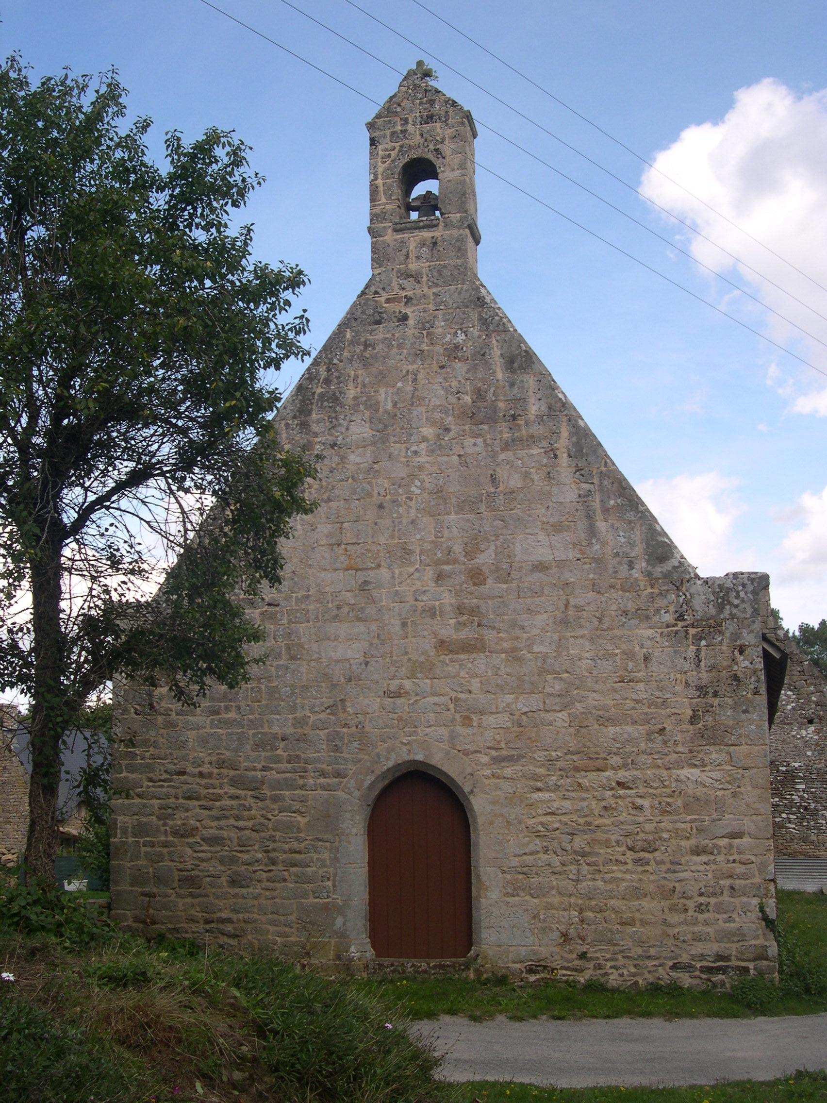 Photo of the saint Colomban's chapel in Pluvigner, France.